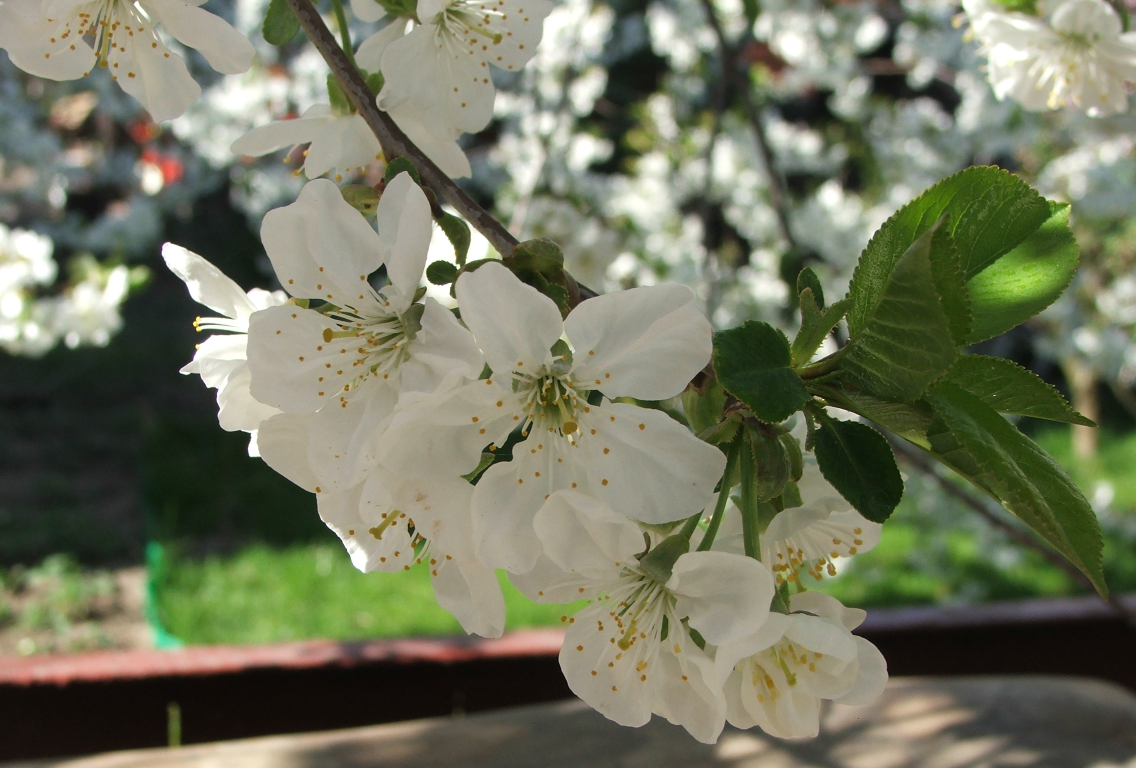 Prunus (cherry) blossoms